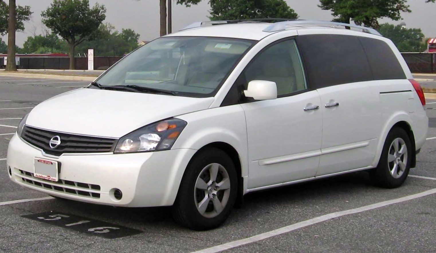 2007 Nissan Quest photographed in USA.